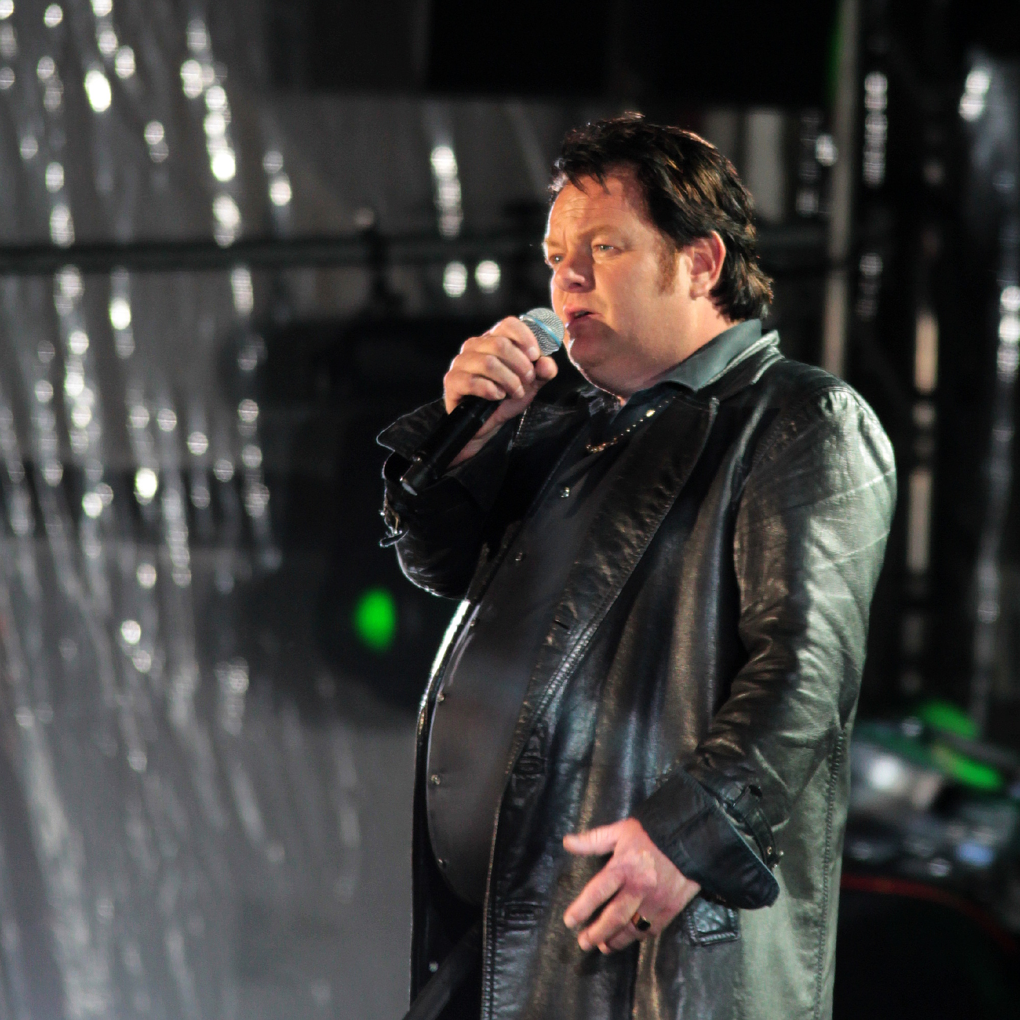 Martijn Fischer playing André Hazes during the musical sing-a-long at Uitmarkt 2014.